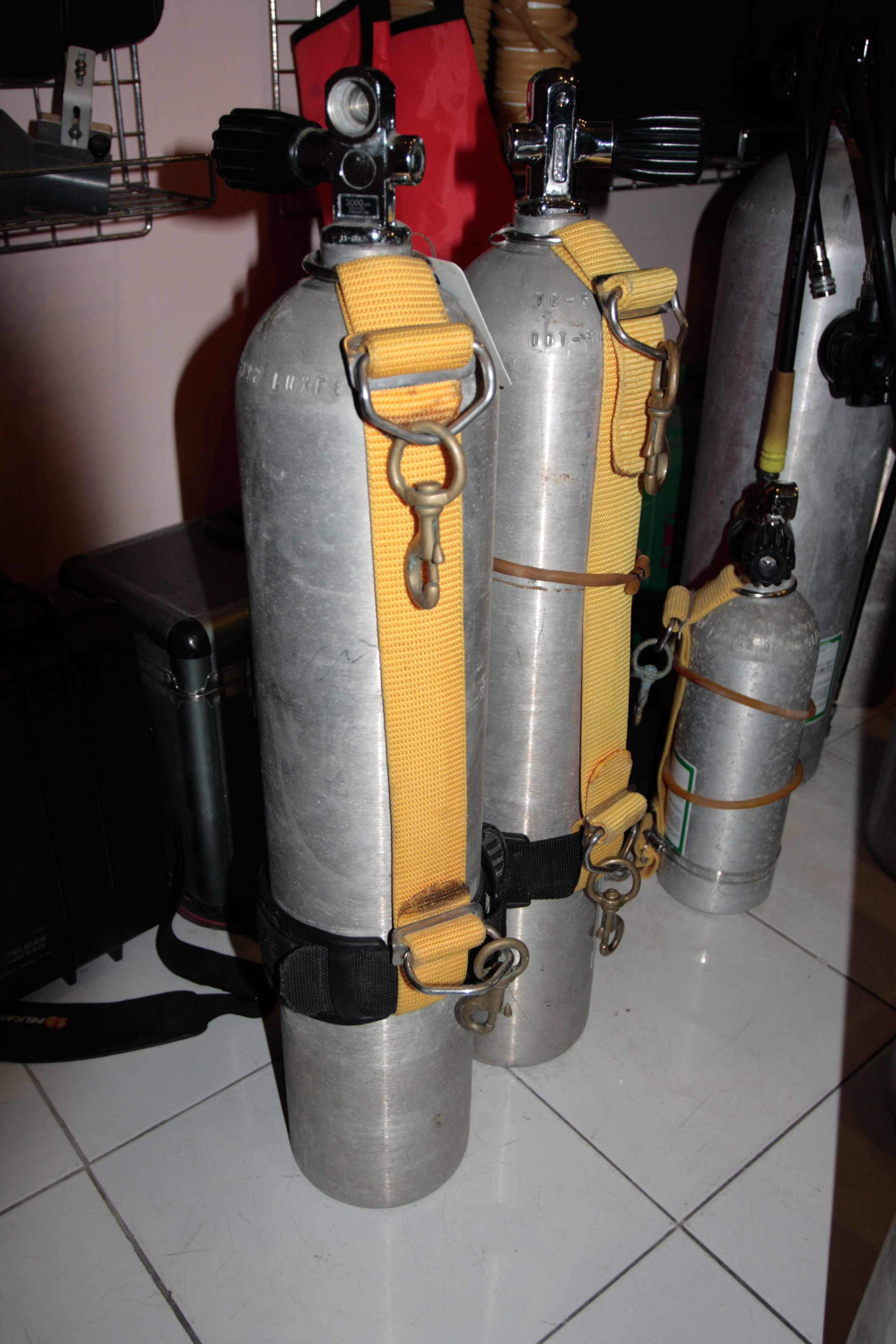 Example of stage tanks